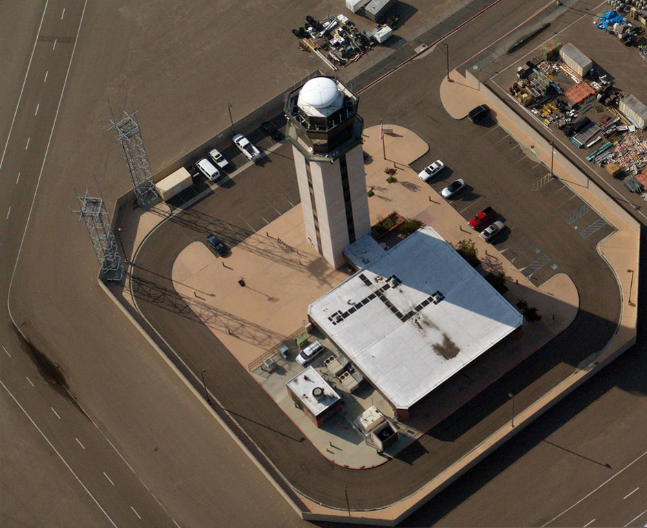 Lindbergh Field - San Diego, California - FAA Airport Control Tower.